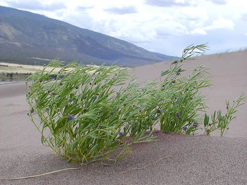 Psoralea lanceolata at Great Sand Dunes National Park, Colorado, USA